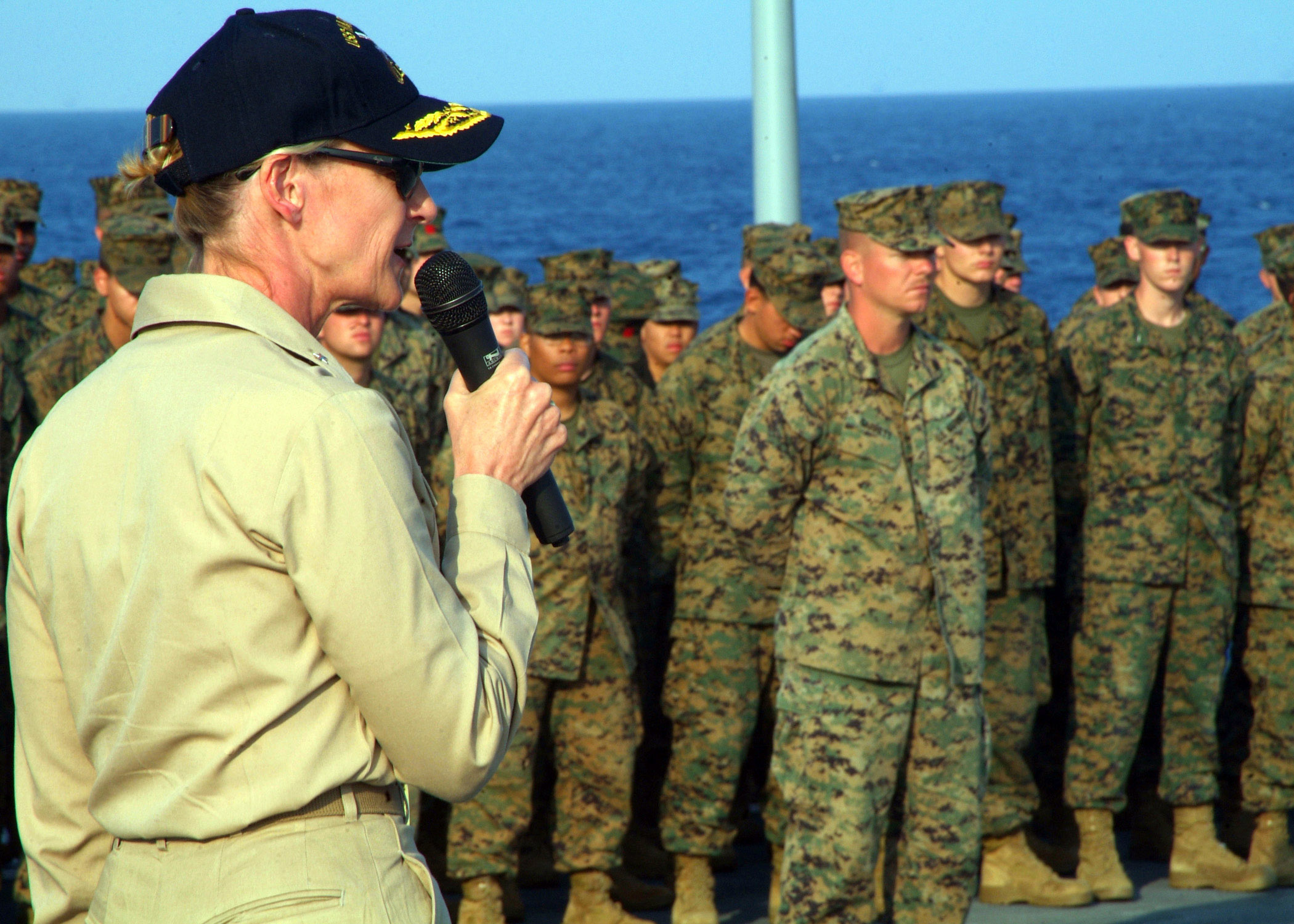 PACIFIC OCEAN (March 15, 2007) - Rear Adm. Carol M. Pottenger speaks to Sailors and Marines aboard dock landing ship USS Harpers Ferry (LSD 49) during an all hands call. Pottenger explained the importance of Harpers Ferry’s role in establishing strong bilateral relations in the region. U.S. Navy photo by Mass Communication Specialist 3rd Class Mark R. Alvarez (RELEASED)